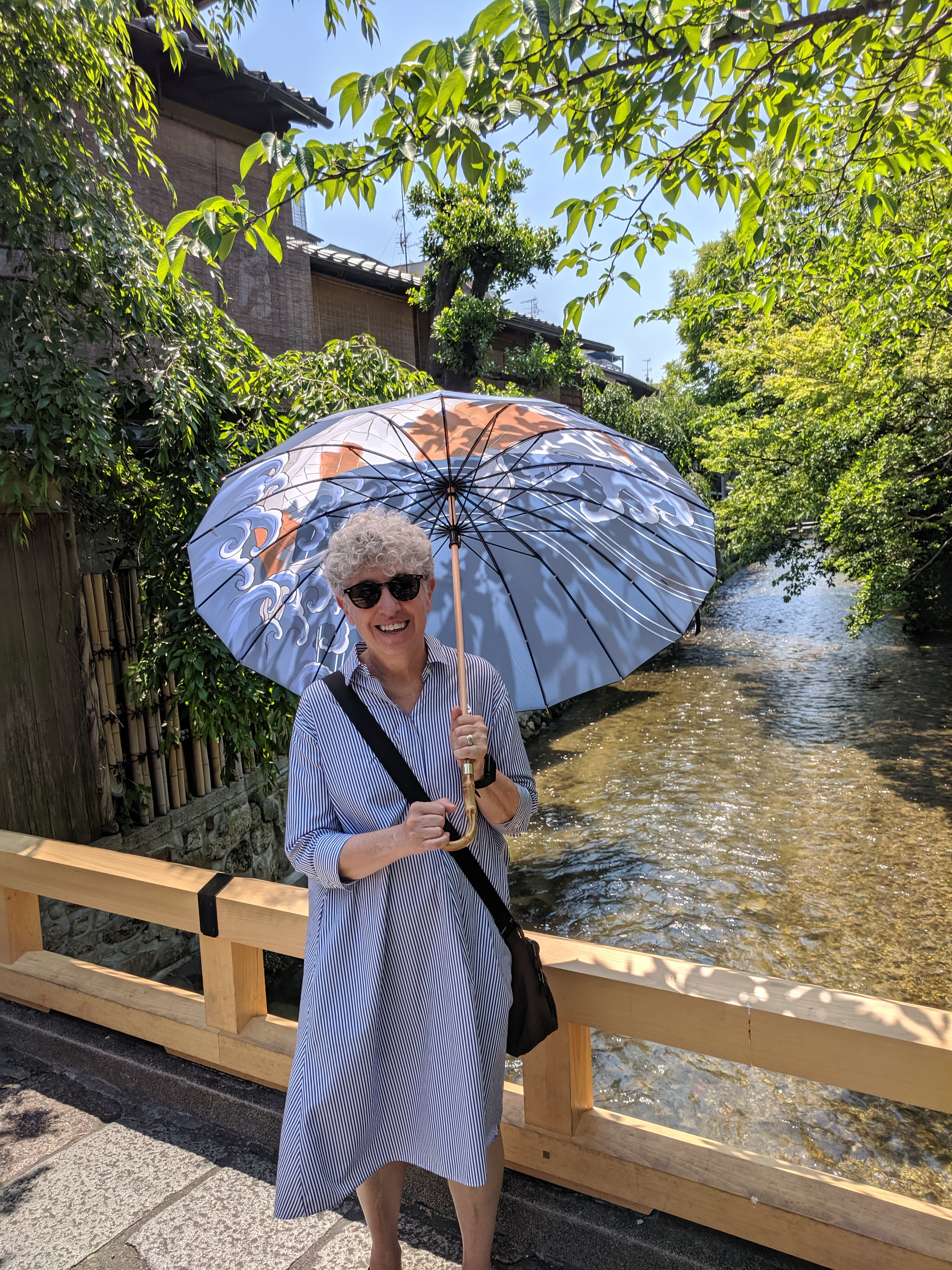 Portrait of Rhea Tregebov holding an umbrella on a bridge in Kyoto Japan